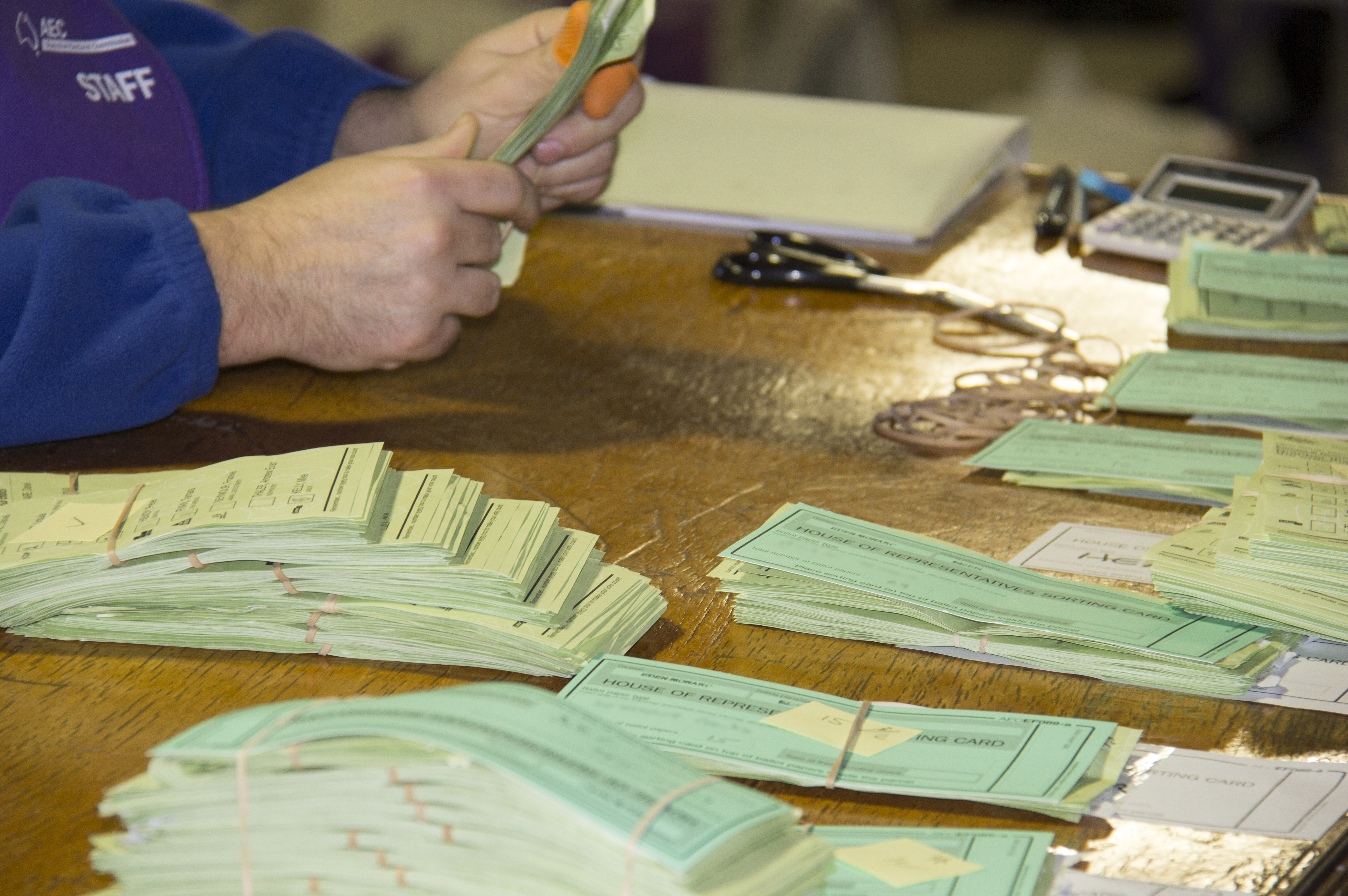 Australian Electoral Commission image library, 2016 federal election. Counting House of Representatives ballot papers.